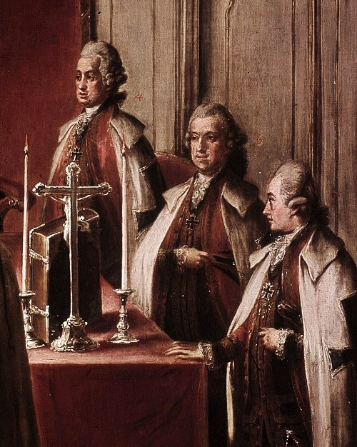 Franz Sigismund Adalbert von Lehrbach (1729-1787), fränkischer Landkomtur des Deutschen Ordens und kaiserlicher Diplomat (ganz links mit Nr. 4) beim Konklave des Deutschen Ordens, Wien, 1770